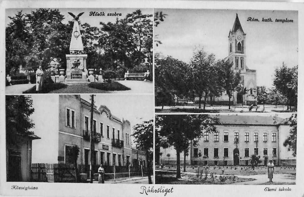 Mosaic postcard of Rákosliget, Budapest, Hungary (1937)